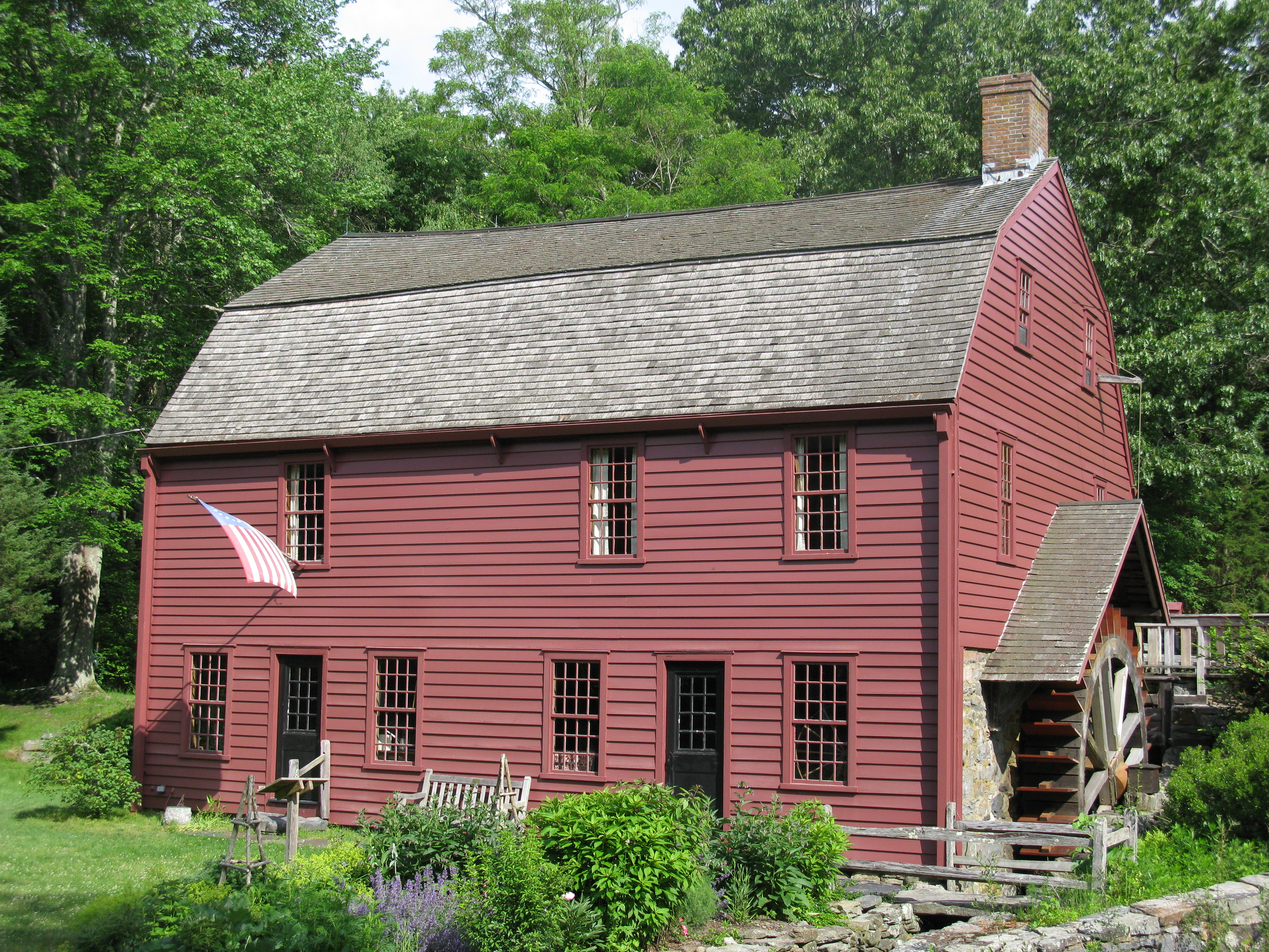 Gilbert Stuart birthplace southern exposure